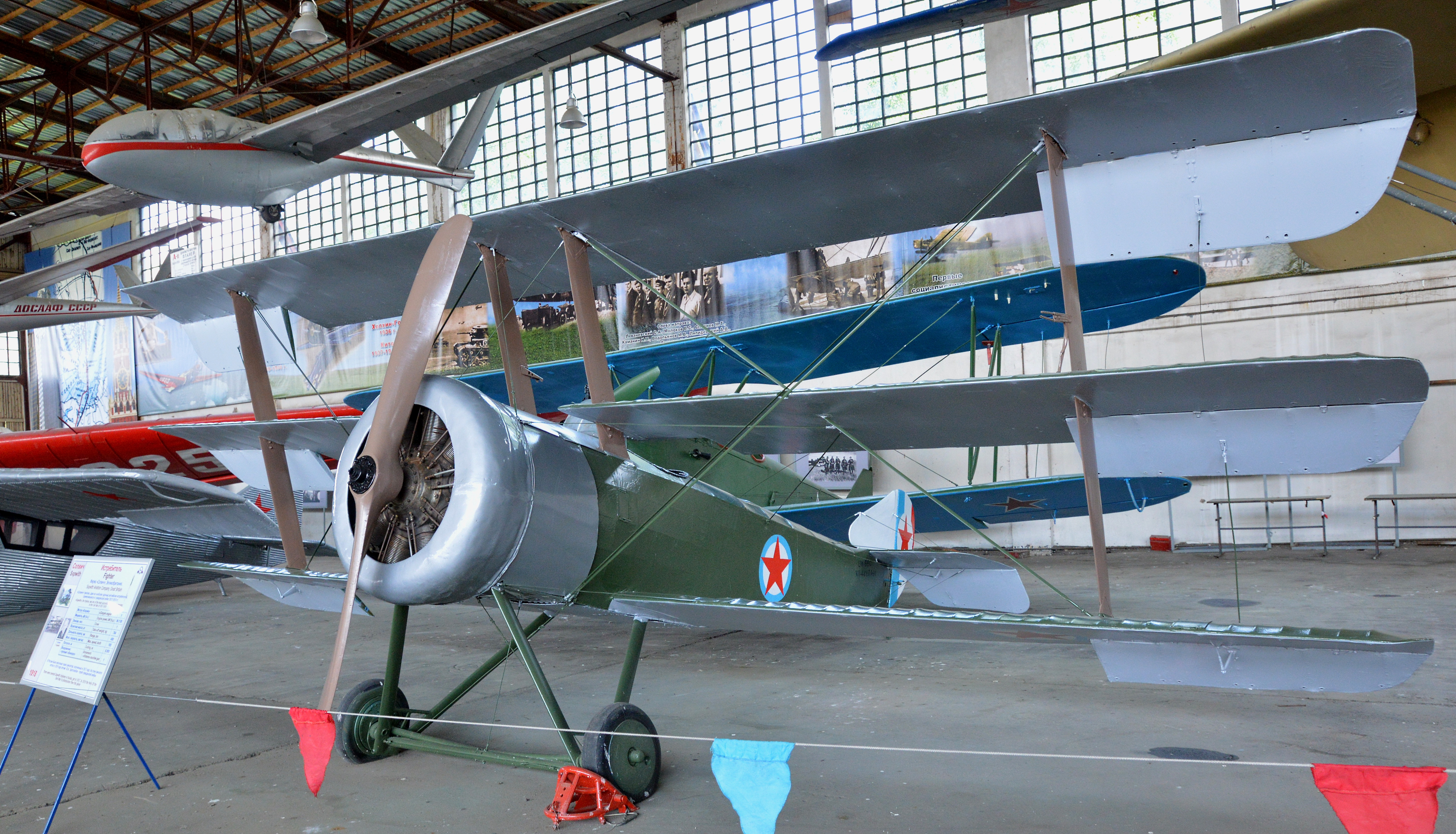 Sopwith Triplane N5486 @ Central Air Force Museum Monino